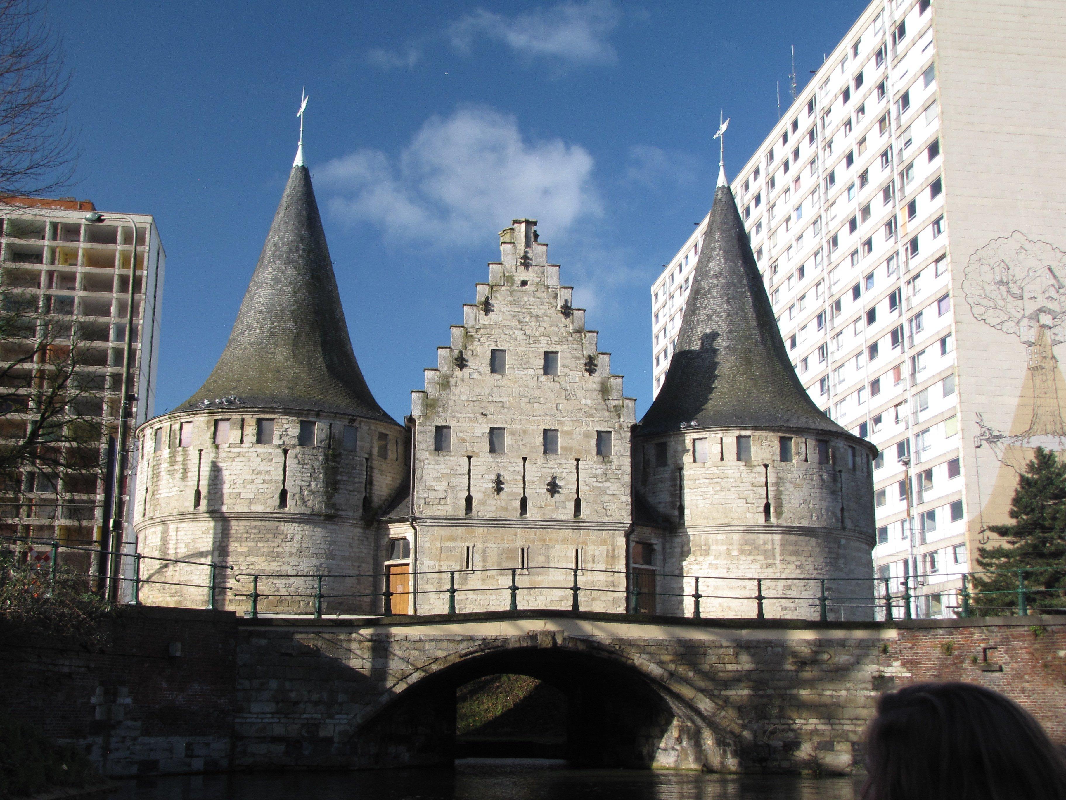 Rabot Ghent